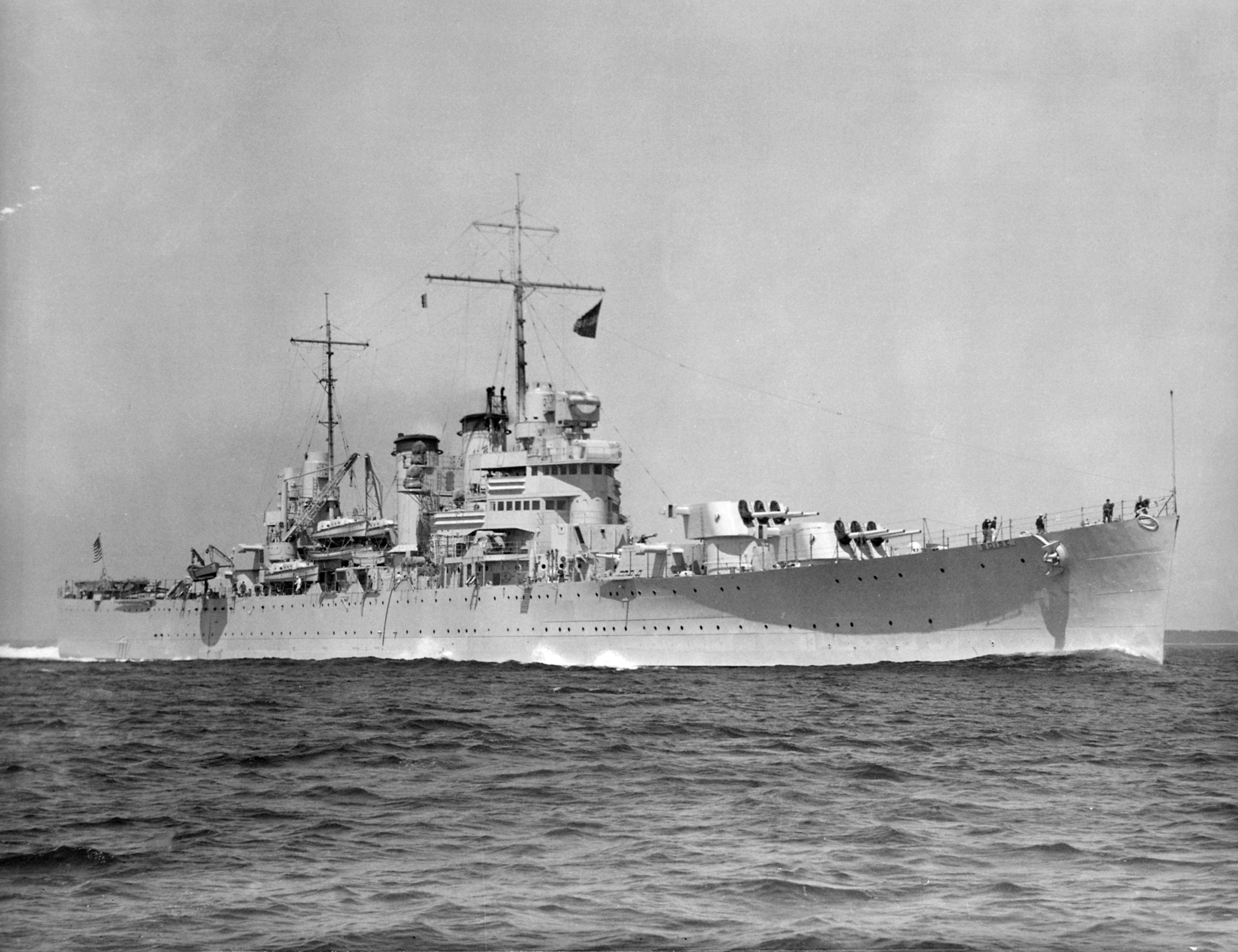 The U.S. Navy light cruiser USS Boise (CL-47) underway during trials in 1938. Boise was commissioned on 12 August 1938.